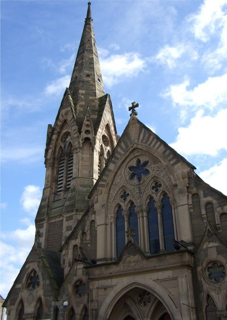 Gate Church International On Perth Road, Dundee. Near Dundee University campus.